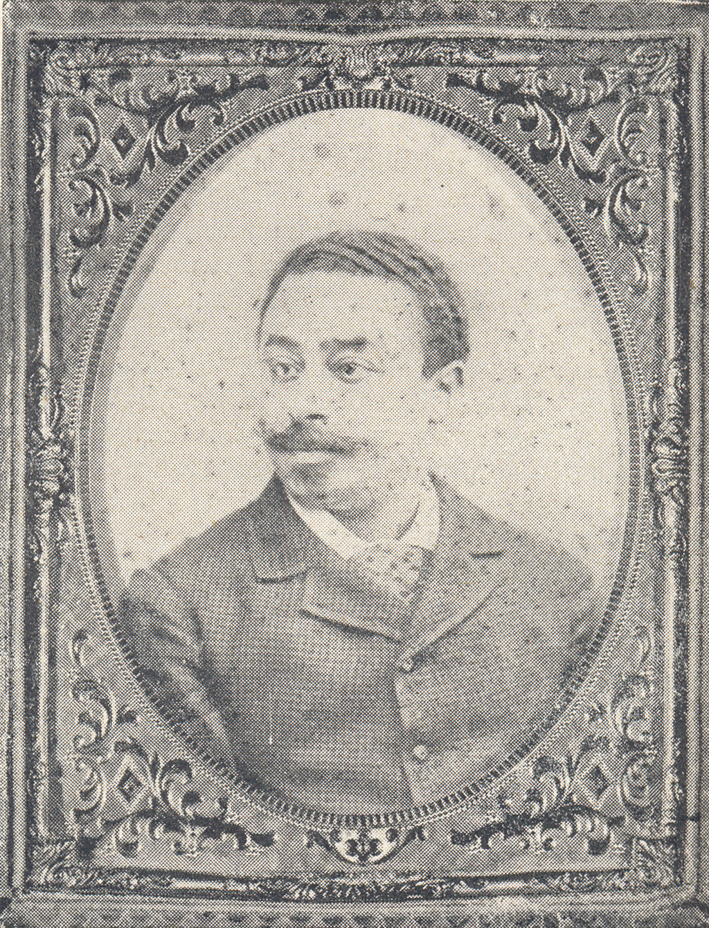 rtrait of the composer afroporteño Zenón Rolón